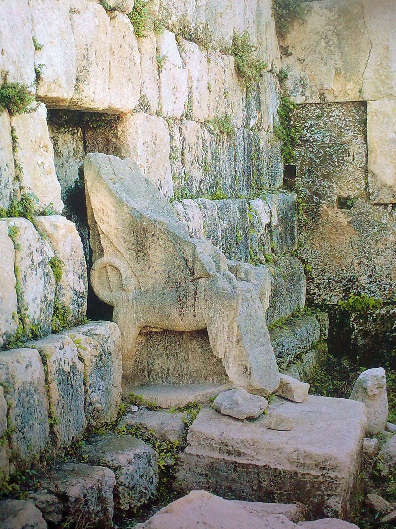 Astarte's throne at the Eshmun temple, Bostan El Sheikh, near Sidon, Lebanon.